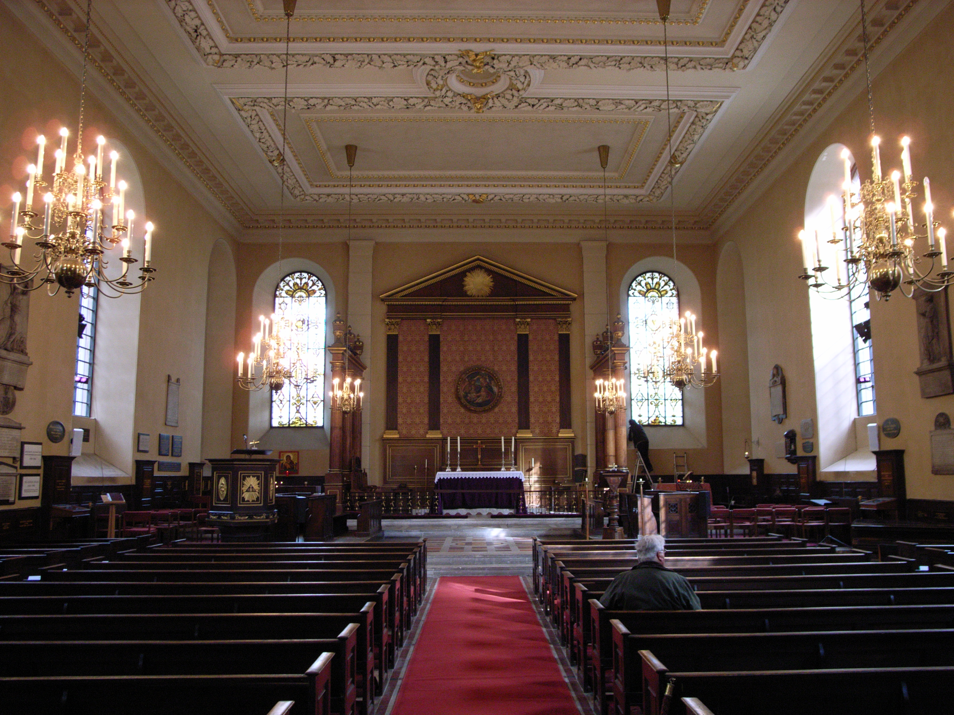 Interior, St Paul, Covent Garden. As far as I am aware, none of the interior is original, the church having been damaged extensively by fire in the late 18th century. It does give some idea of the very plain, box-like simplicity of the original.